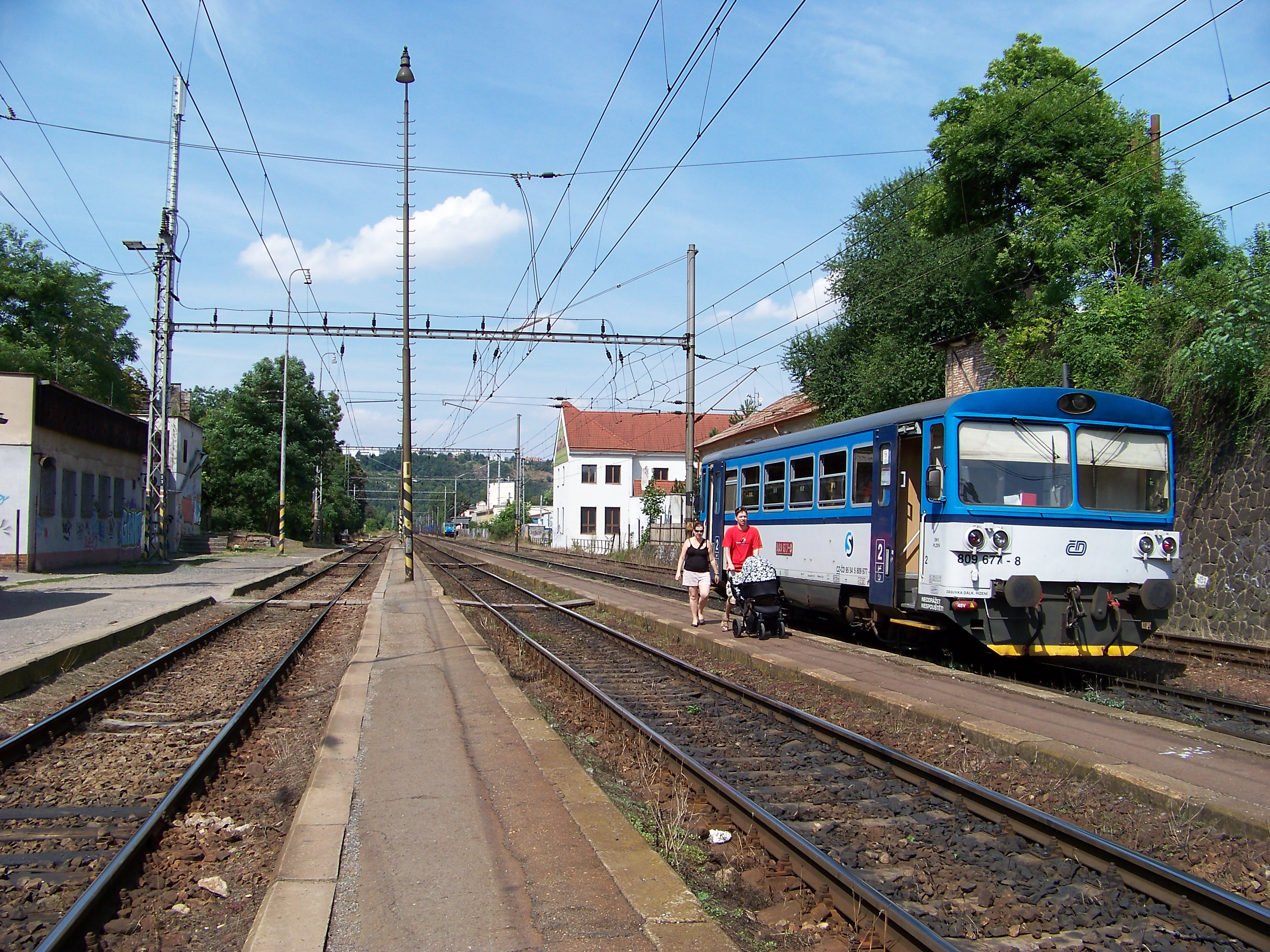 Prague-Bubeneč. Praha-Bubeneč station, a motor car on Esko S41 line.